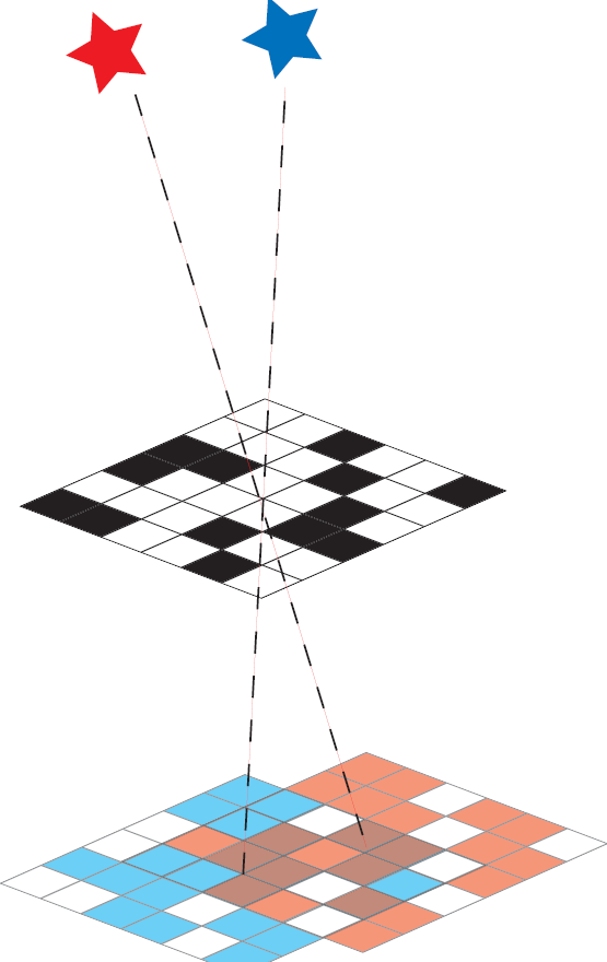 Idea of coded mask imaging